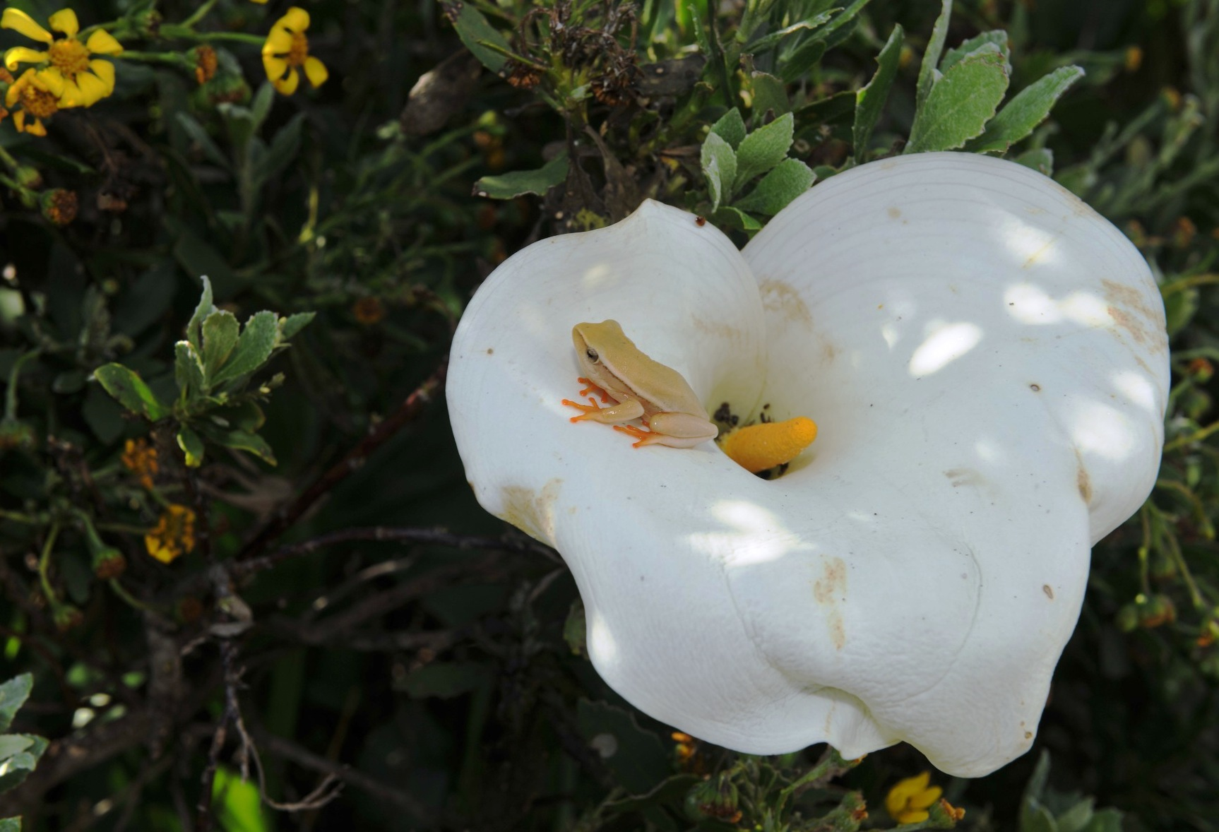 Hyperolius horstockii. The Arum Lily Frog. Photo taken in Cape Town.